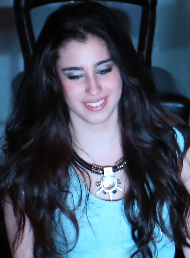 0O3A0433 Fifth Harmony at Hollywood & Highland Center